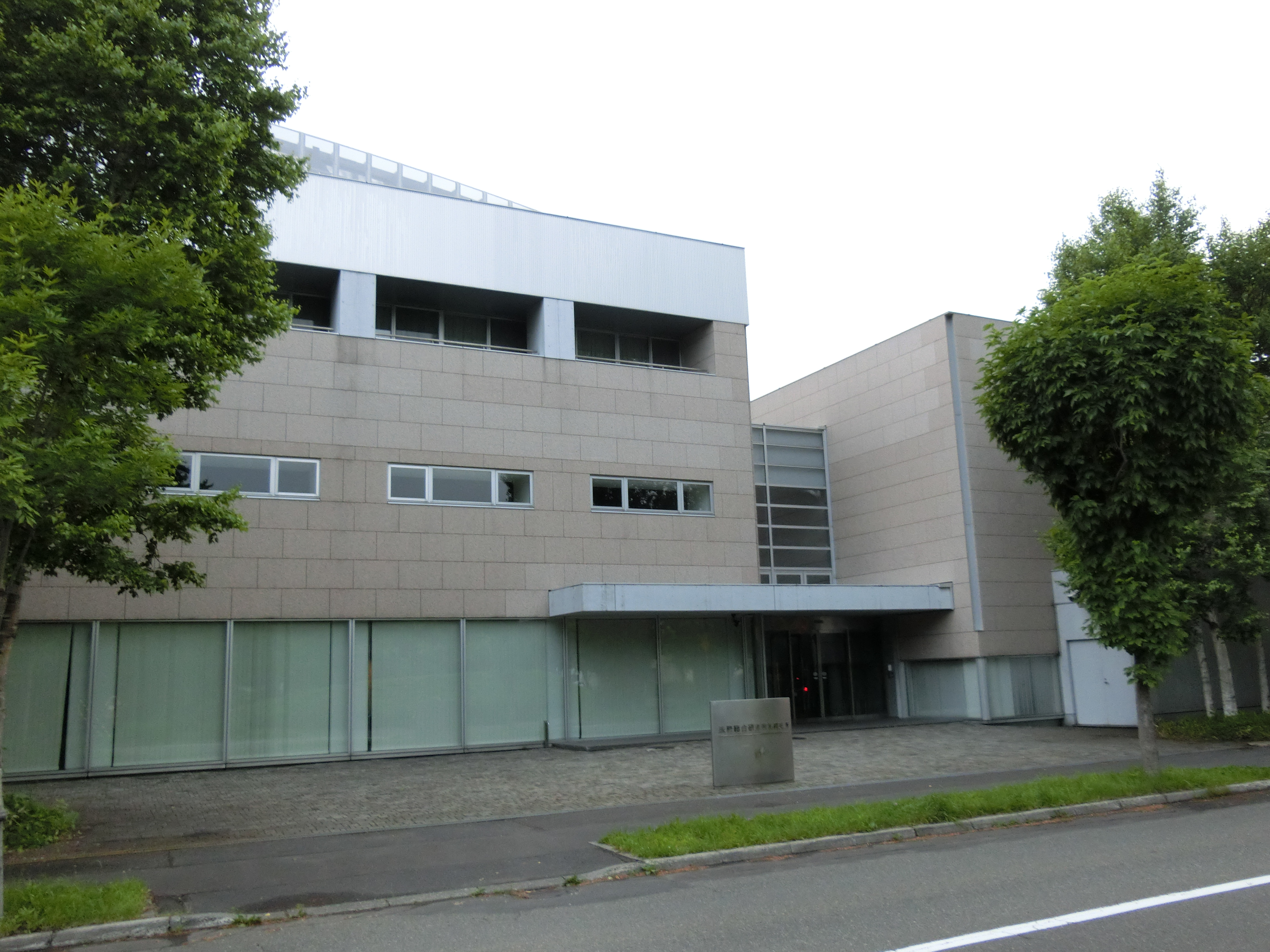 Research and Training Institute of the Ministry of Justice Sapporo Brunch located in North Ward, Sapporo, Hokkaido